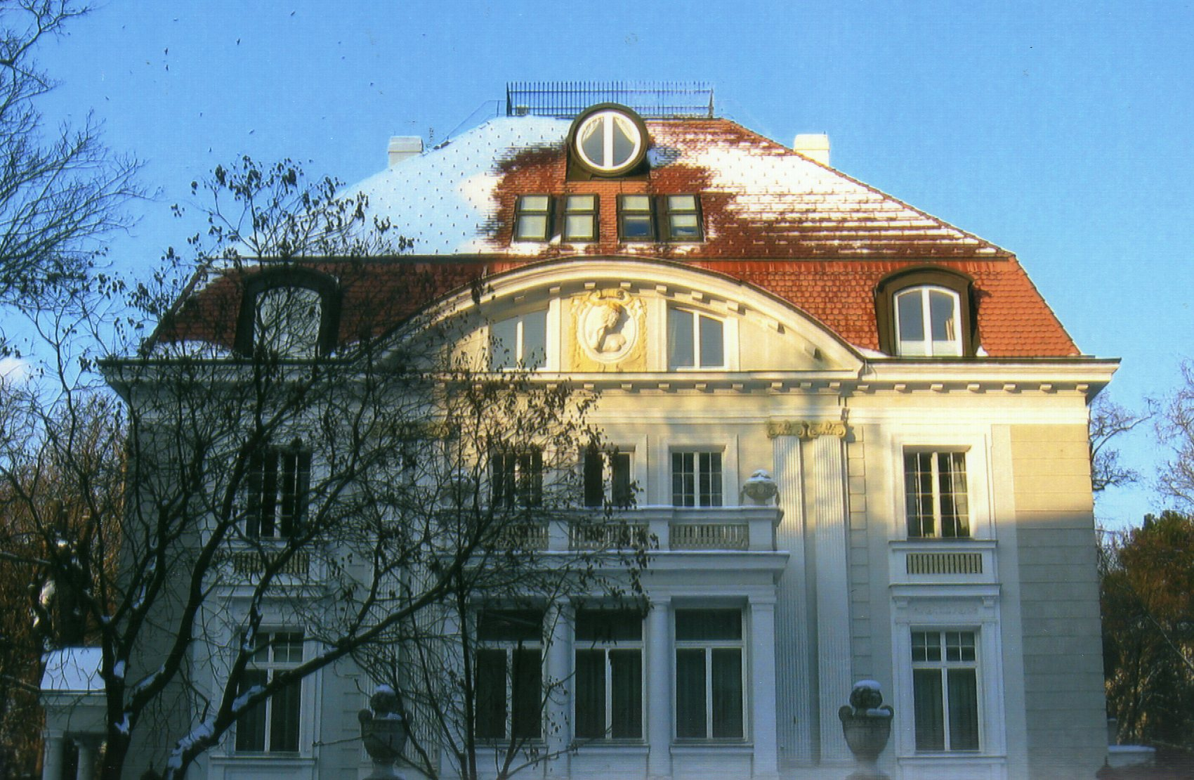 Villa Menotti, Baden